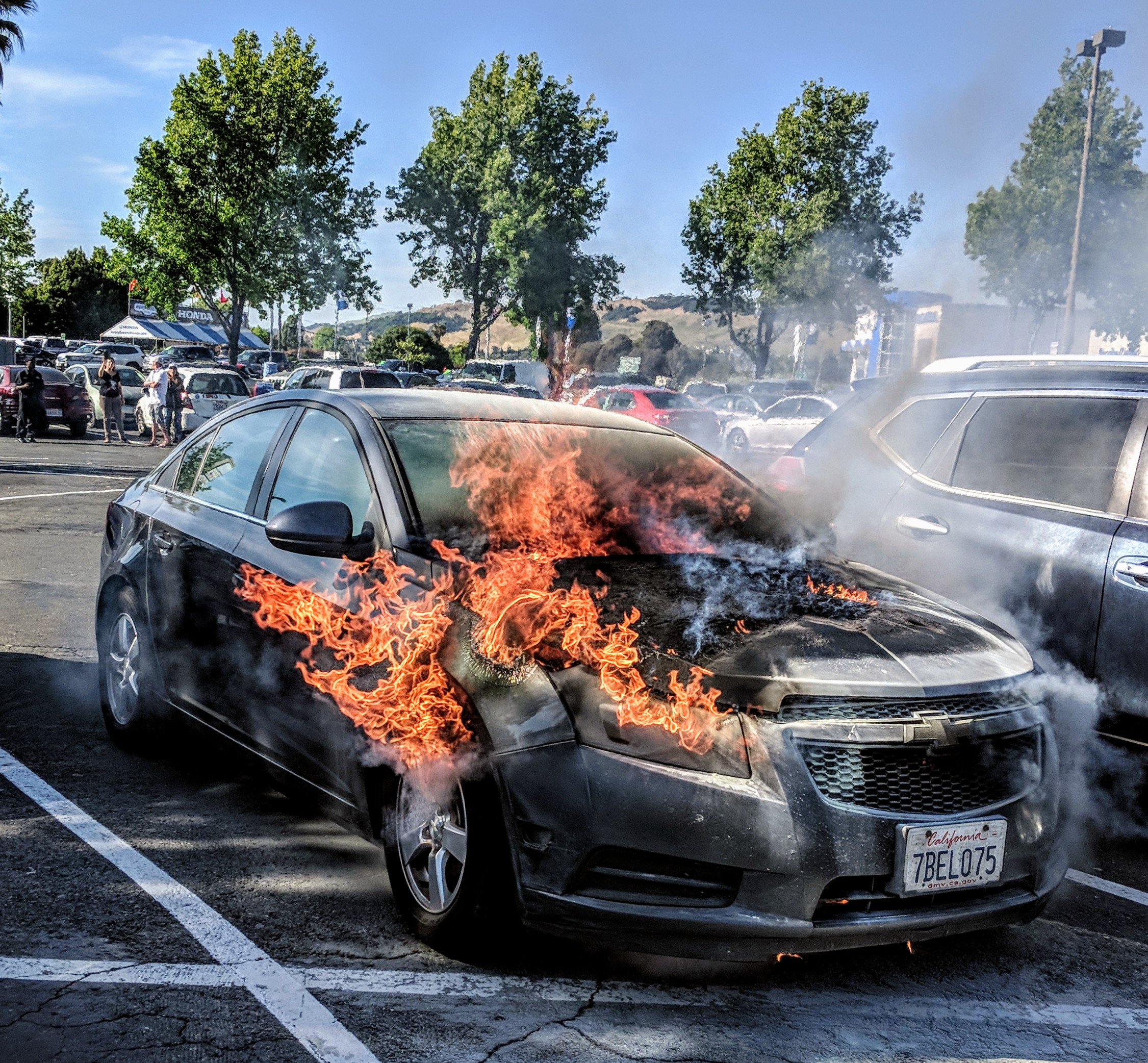 An automobile on fire in a grocery store parking lot in Vallejo, California. Photo by Jim Heaphy.